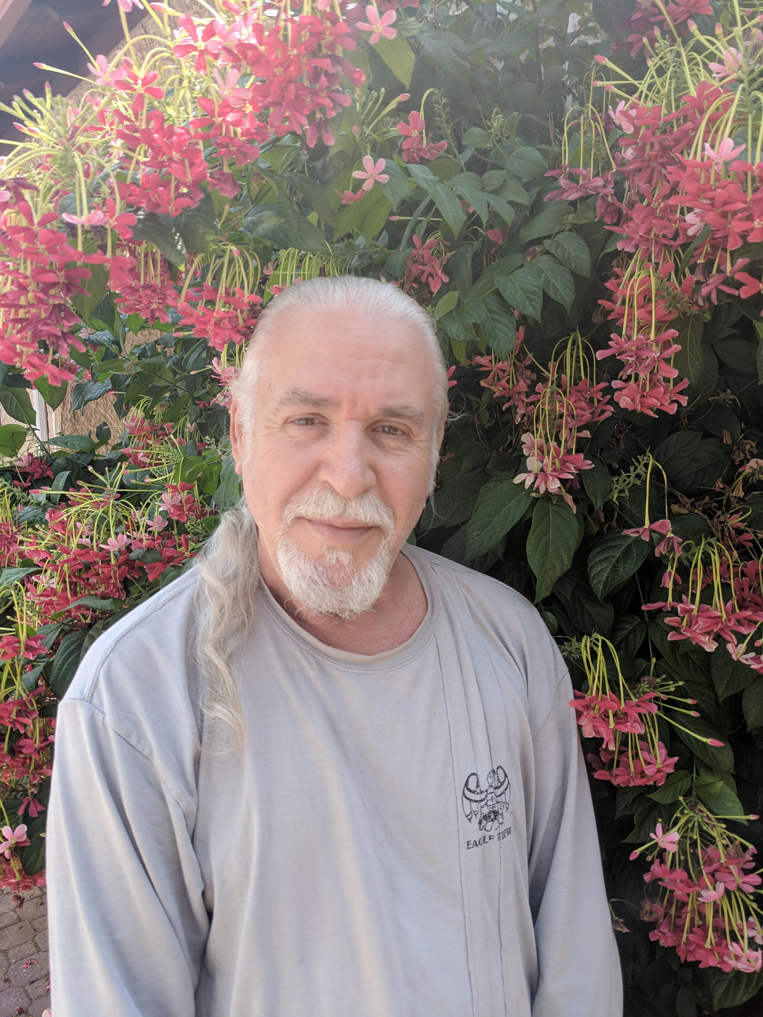 Israeli musician Shlomo Gronich